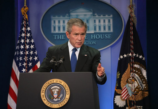 President George W. Bush responds to a question Tuesday, Dec. 4, 2007, during a morning news conference at the White House.